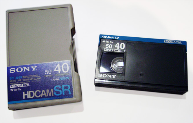 Sony HDCAM SR Tape "BCT-40SR"